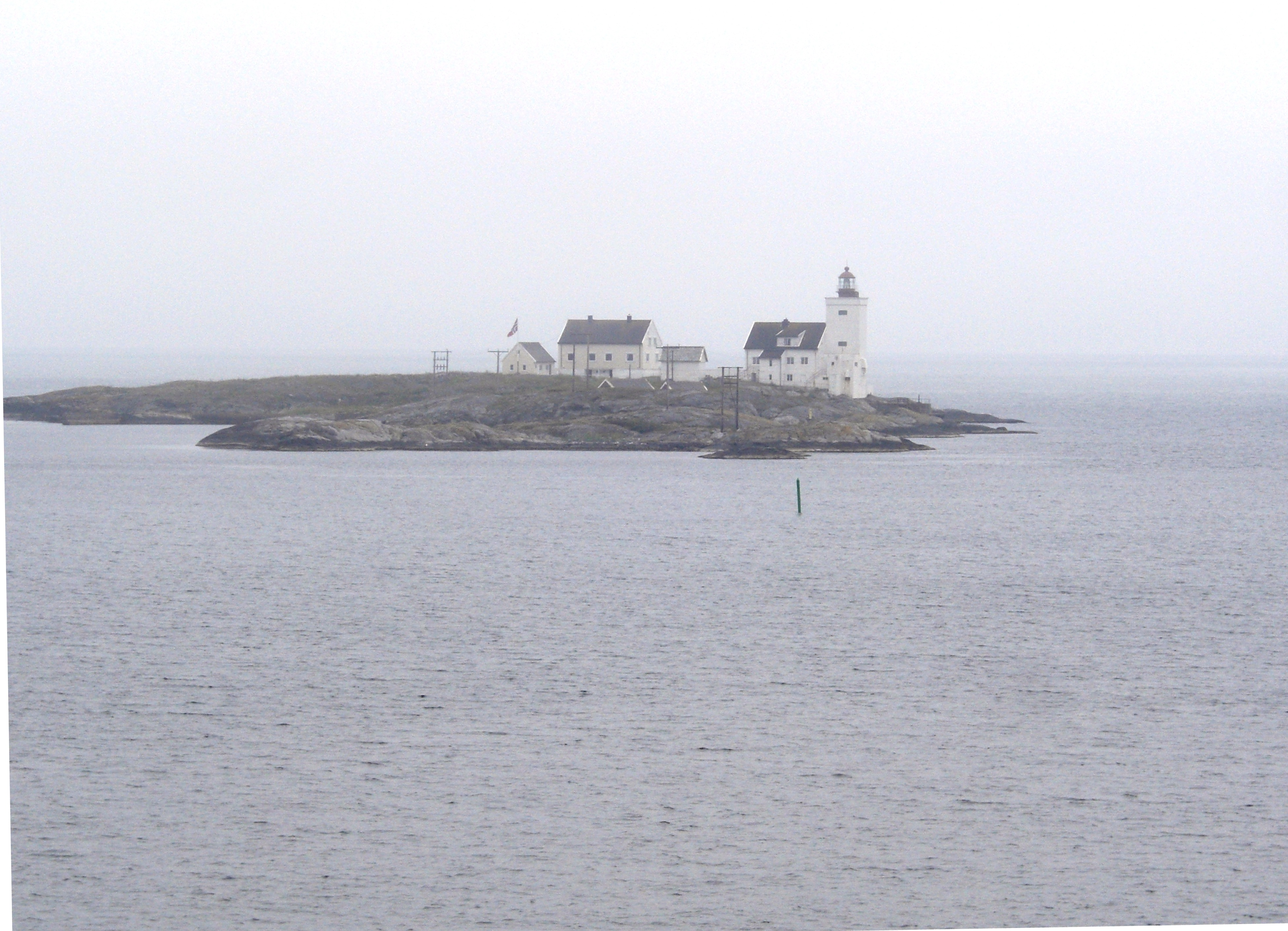 Homborsund lighthouse